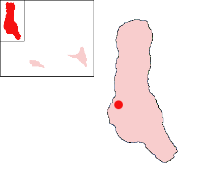 Tsidjé, Grande Comore, Comoros Location Map; created with the GIMP. Made by User:Acntx.